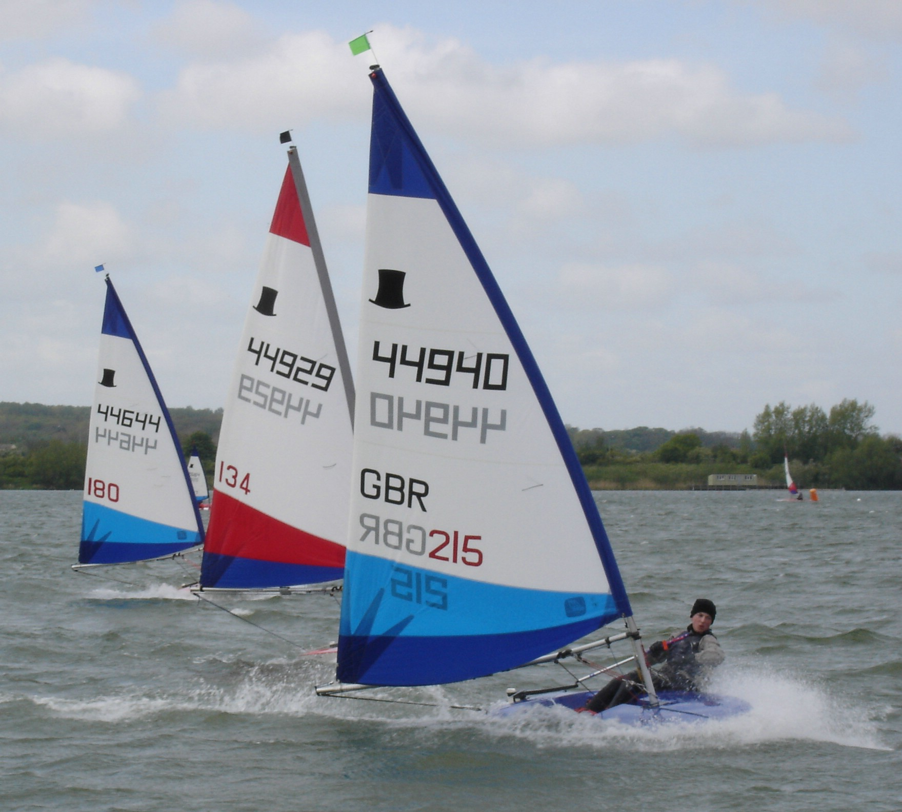 Topper Sailing Dinghies at the Stewartby Topper Open in 2005